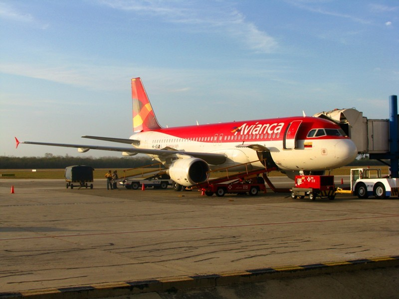 Aircraft, A320 (Avianca company) in Ernesto Cortissoz International Airport, Barranquilla, Colombia.